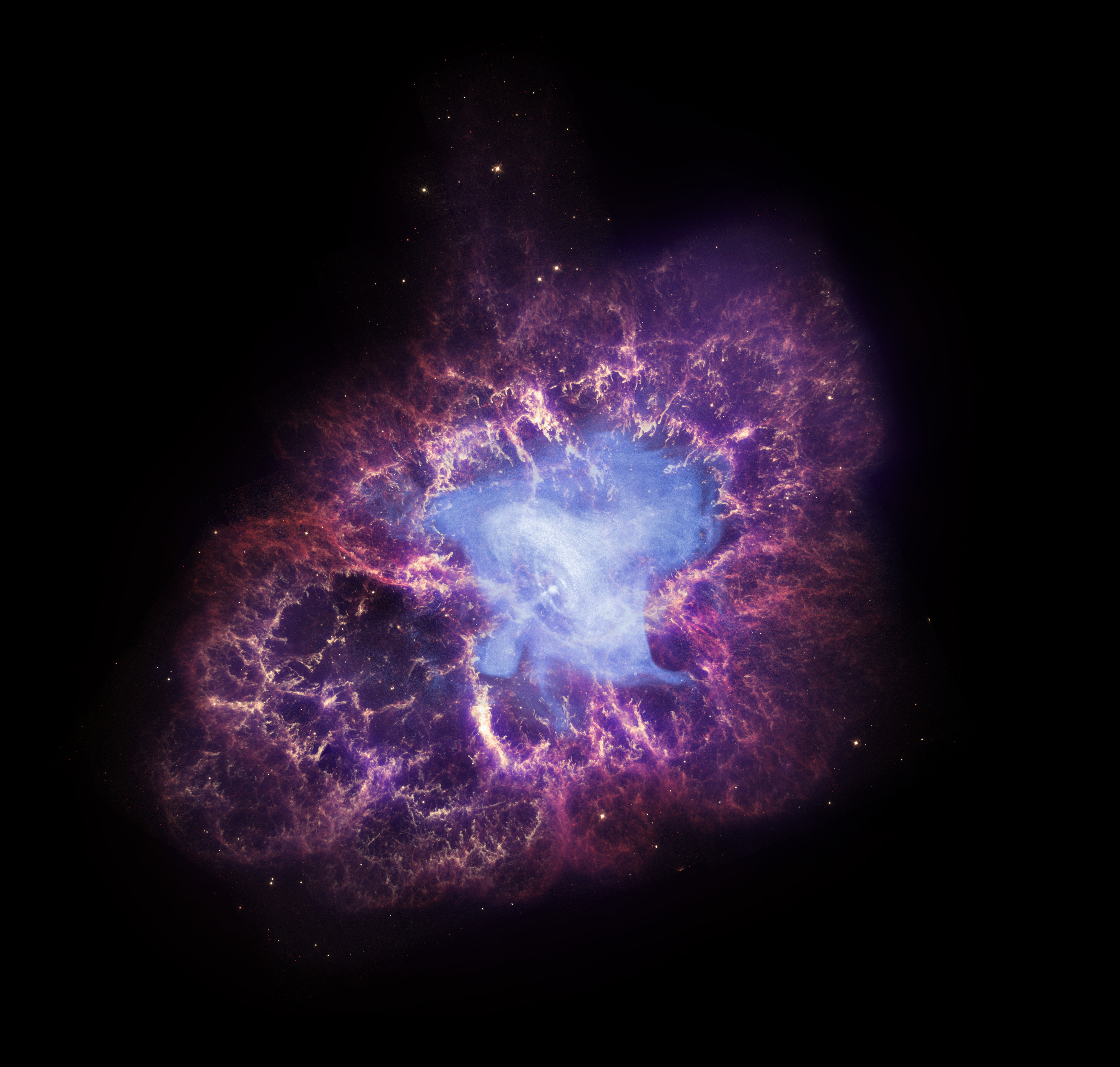 A star's spectacular death in the constellation Taurus was observed on Earth as the supernova of 1054 A.D. Now, almost a thousand years later, a super dense object — called a neutron star — left behind by the explosion is seen spewing out a blizzard of high-energy particles into the expanding debris field known as the Crab Nebula. X-ray data from Chandra provide significant clues to the workings of this mighty cosmic "generator," which is producing energy at the rate of 100,000 suns. This composite image uses data from three of NASA's Great Observatories. The Chandra X-ray image is shown in blue, the Hubble Space Telescope optical image is in red and yellow, and the Spitzer Space Telescope's infrared image is in purple. The X-ray image is smaller than the others because extremely energetic electrons emitting X-rays radiate away their energy more quickly than the lower-energy electrons emitting optical and infrared light. Along with many other telescopes, Chandra has repeatedly observed the Crab Nebula over the course of the mission's lifetime. The Crab Nebula is one of the most studied objects in the sky, truly making it a cosmic icon.